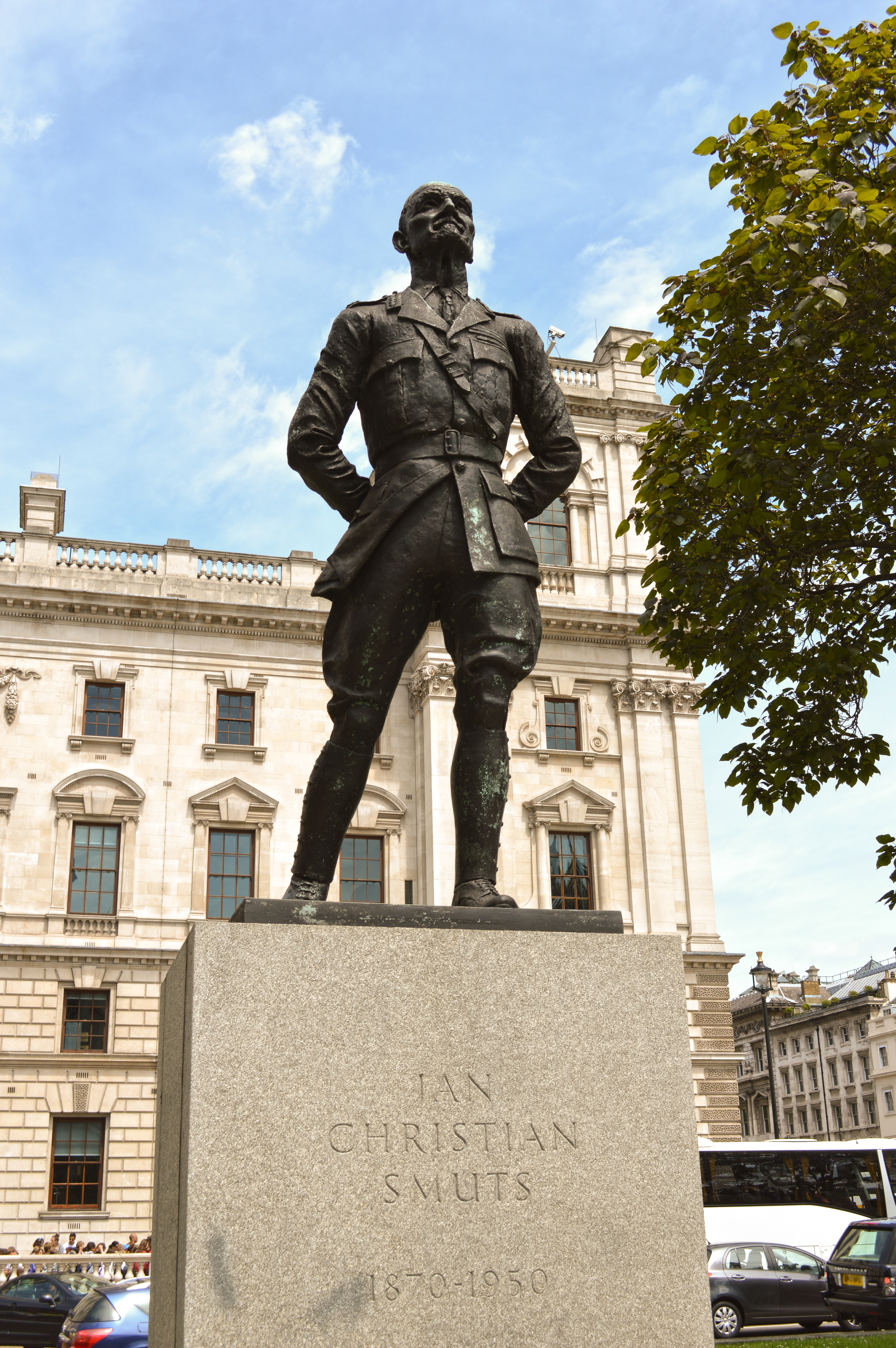 Jan Christian Smuts, OM, CH, ED, KC, FRS, PC was a prominent South African and British Commonwealth statesman, military leader and philosopher.